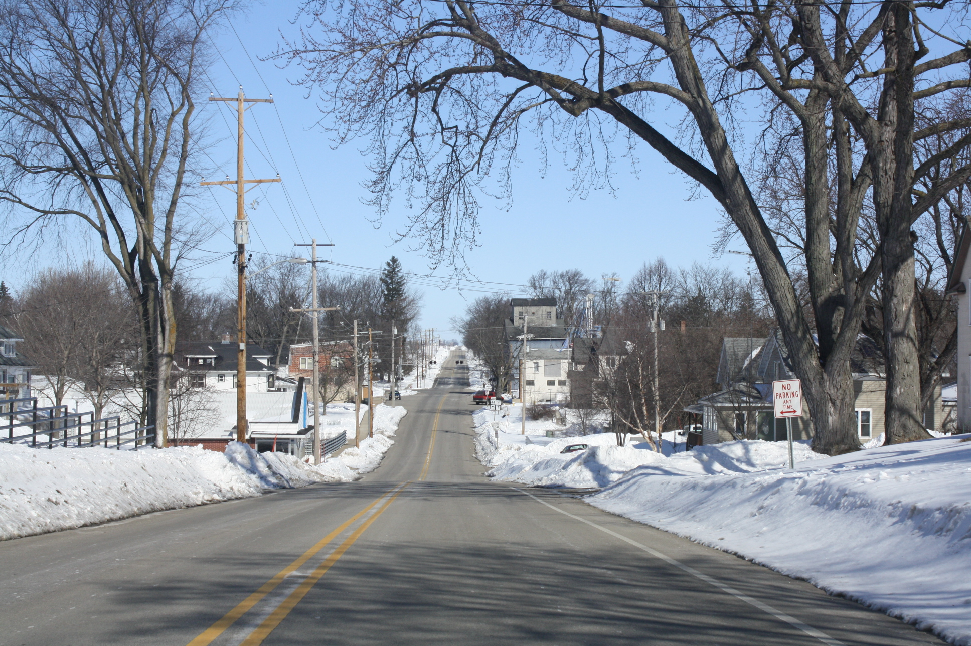 Looking north in Fairwater, Wisconsin along Wisconsin Highway 44.